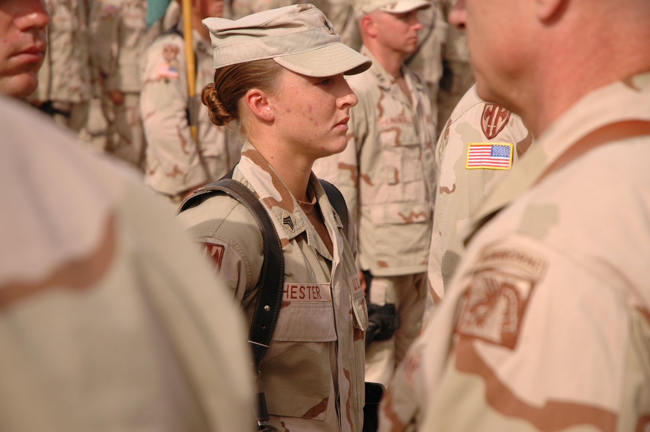 Sergeant Leigh Ann Hester, a United States Army soldier, waits to be awarded the Silver Star medal during a military awards ceremony at Camp Liberty, Iraq, on June 16, 2005. U.S. Army photograph by Jeremy D. Crisp.